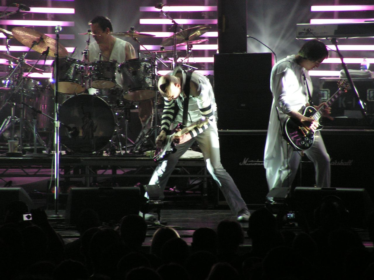 The Smashing Pumpkins at Le Grand Rex in Paris, France. First show back since 2000.